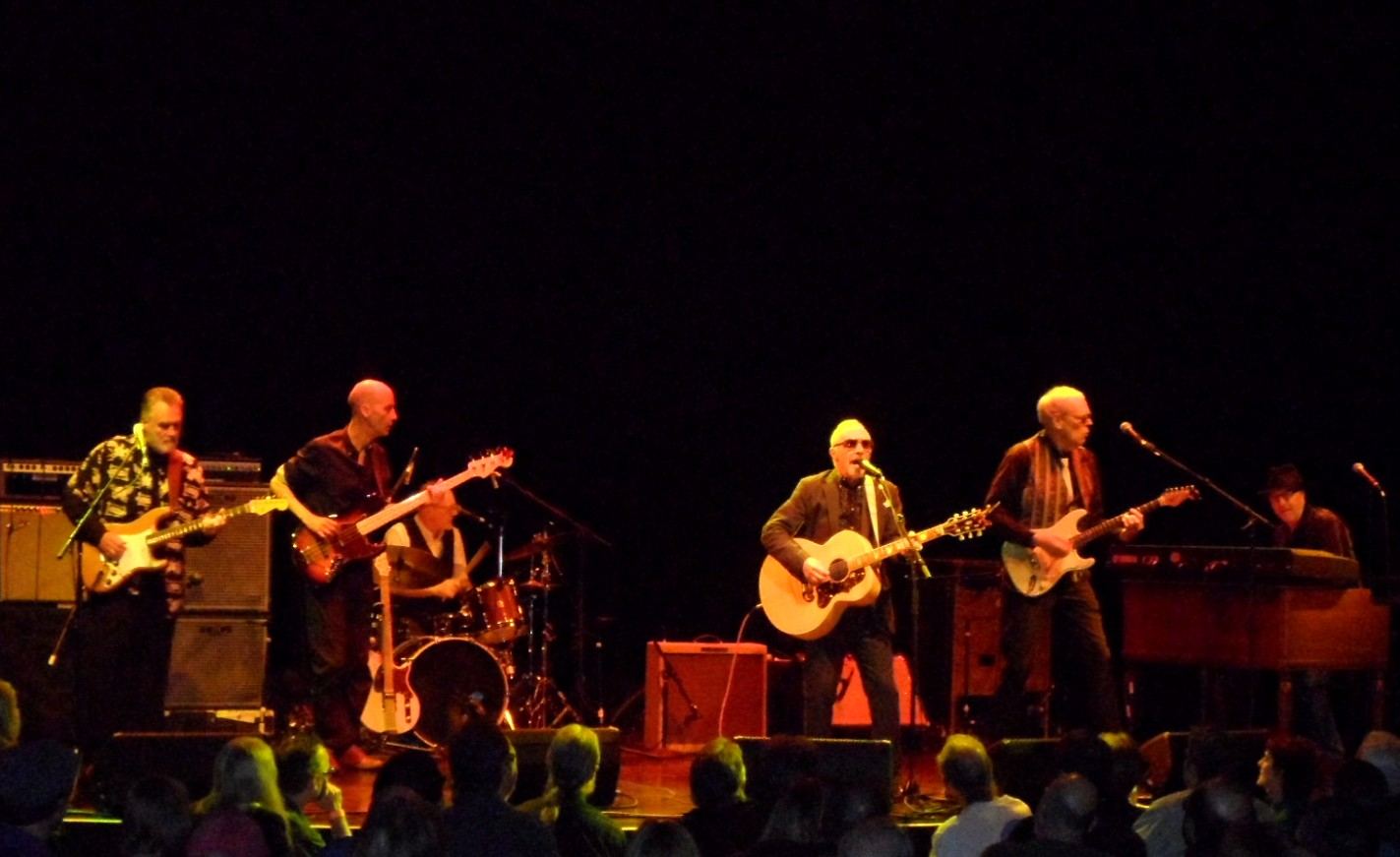 Graham Parker and the Rumour at the Park West in Chicago on December 18th, 2012